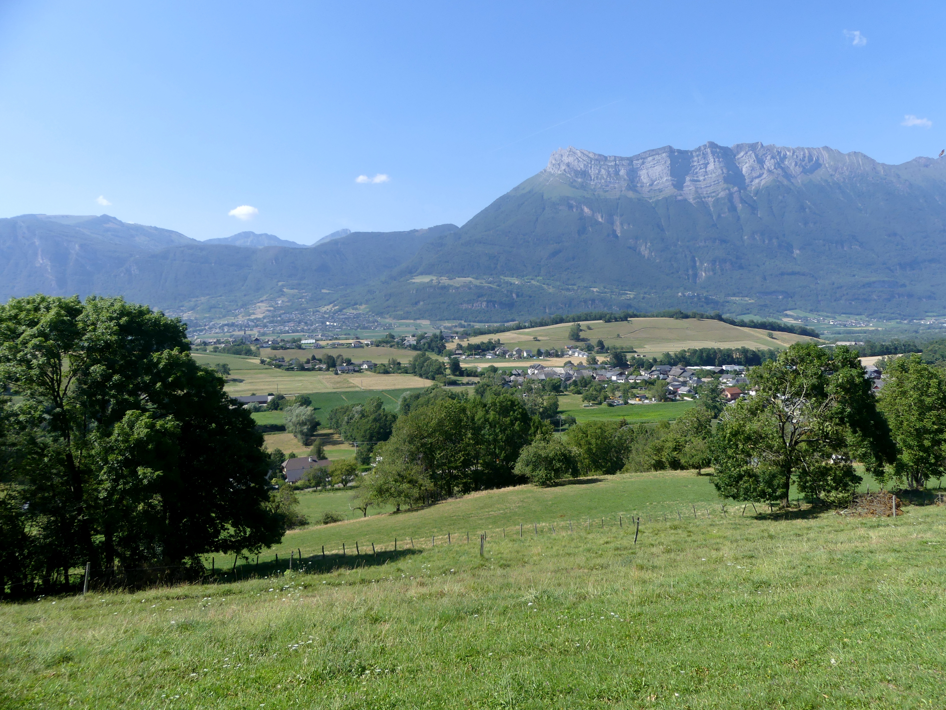 Panoramic sight of Châteauneuf commune territory, in the Combe de Savoie valley, Savoie, France.